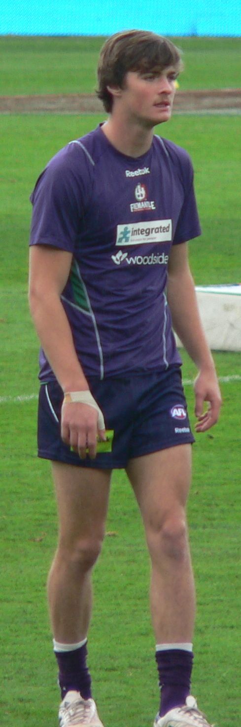 Dylan Roberton at Subiaco Oval in July 2010